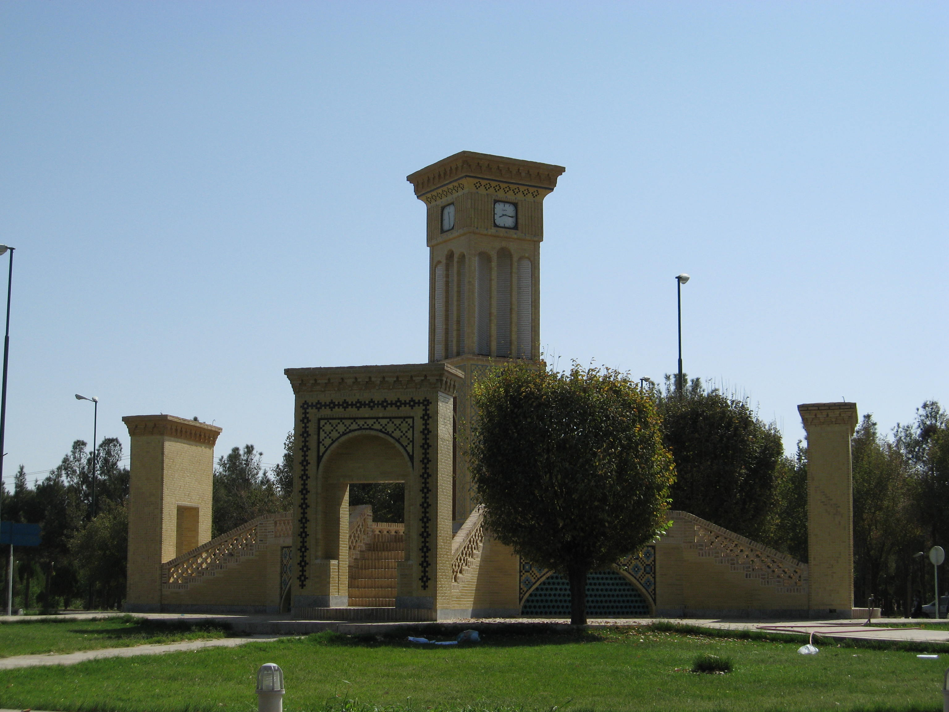 Enterance square of Baadroud , Natanz, Iran